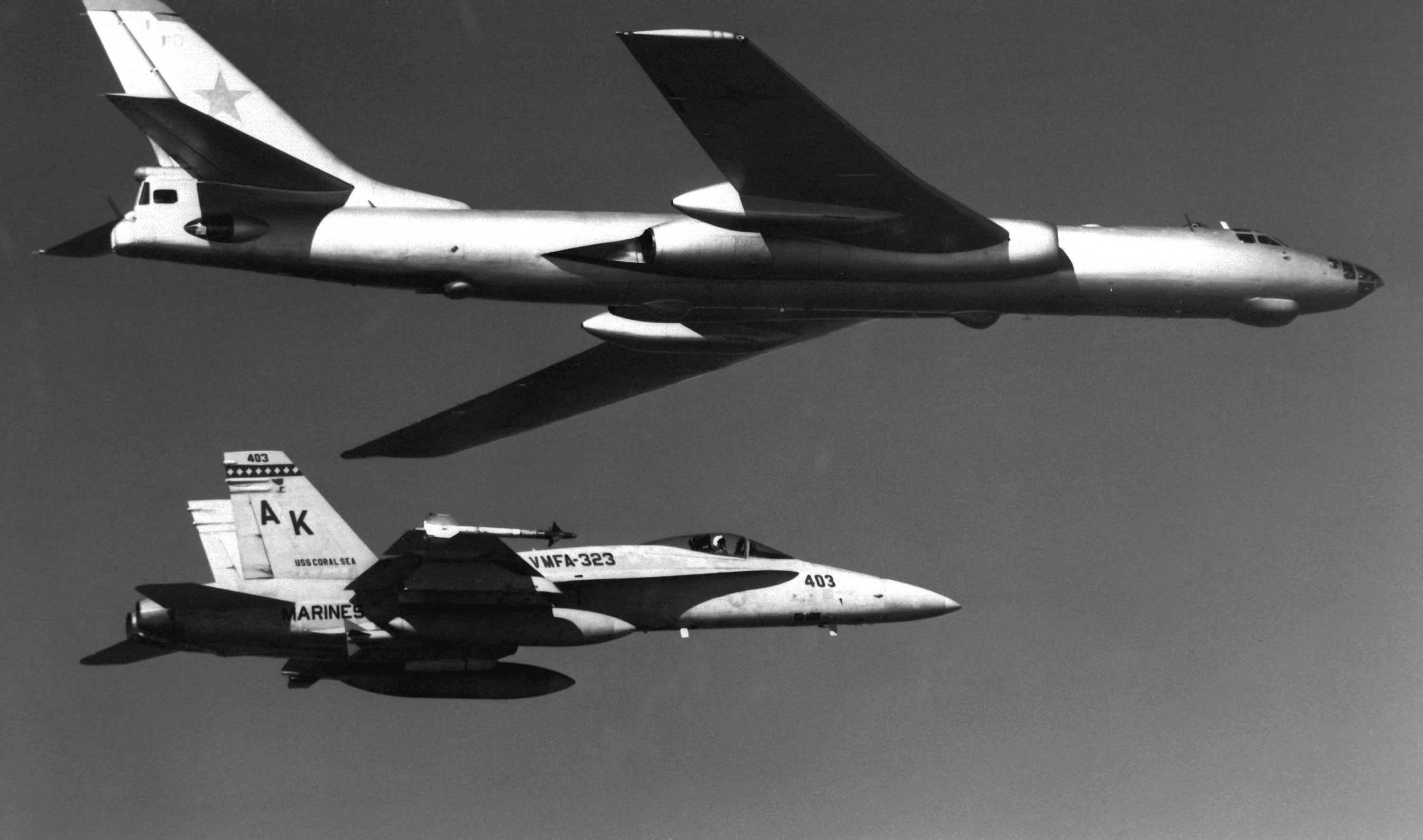 A Soviet Tupolev Tu-16 Badger aircraft being escorted by an U.S. Marine Corps McDonnell Douglas F/A-18A Hornet aircraft from Marine fighter-bomber squadron VFMA-323 Death Rattlers in 1985. VMFA-323 was assigned to Carrier Air Wing 13 (CVW-13) aboard the aircraft carrier USS Coral Sea (CV-43) for a deployment to the Mediterranean Sea from 1 October 1985 to 19 May 1986.